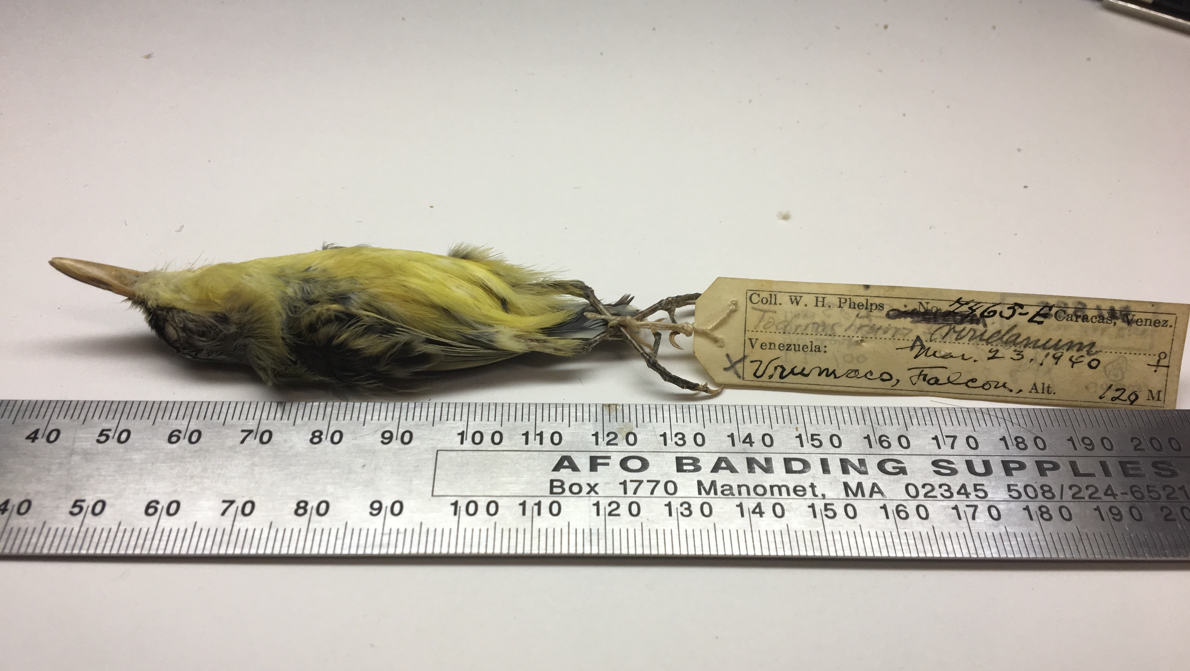 T. viridanum specimen from AMNH AMNH388115F